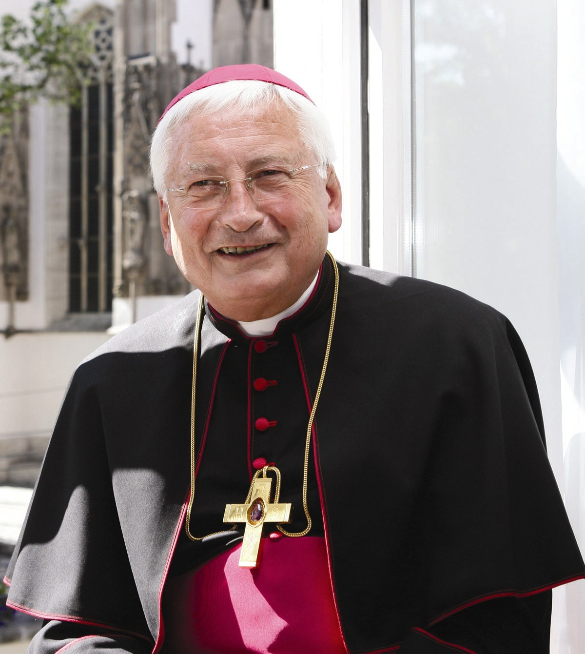 Walter Mixa, Catholic Bishop of Augsburg and Catholic Military Bishop for Germany